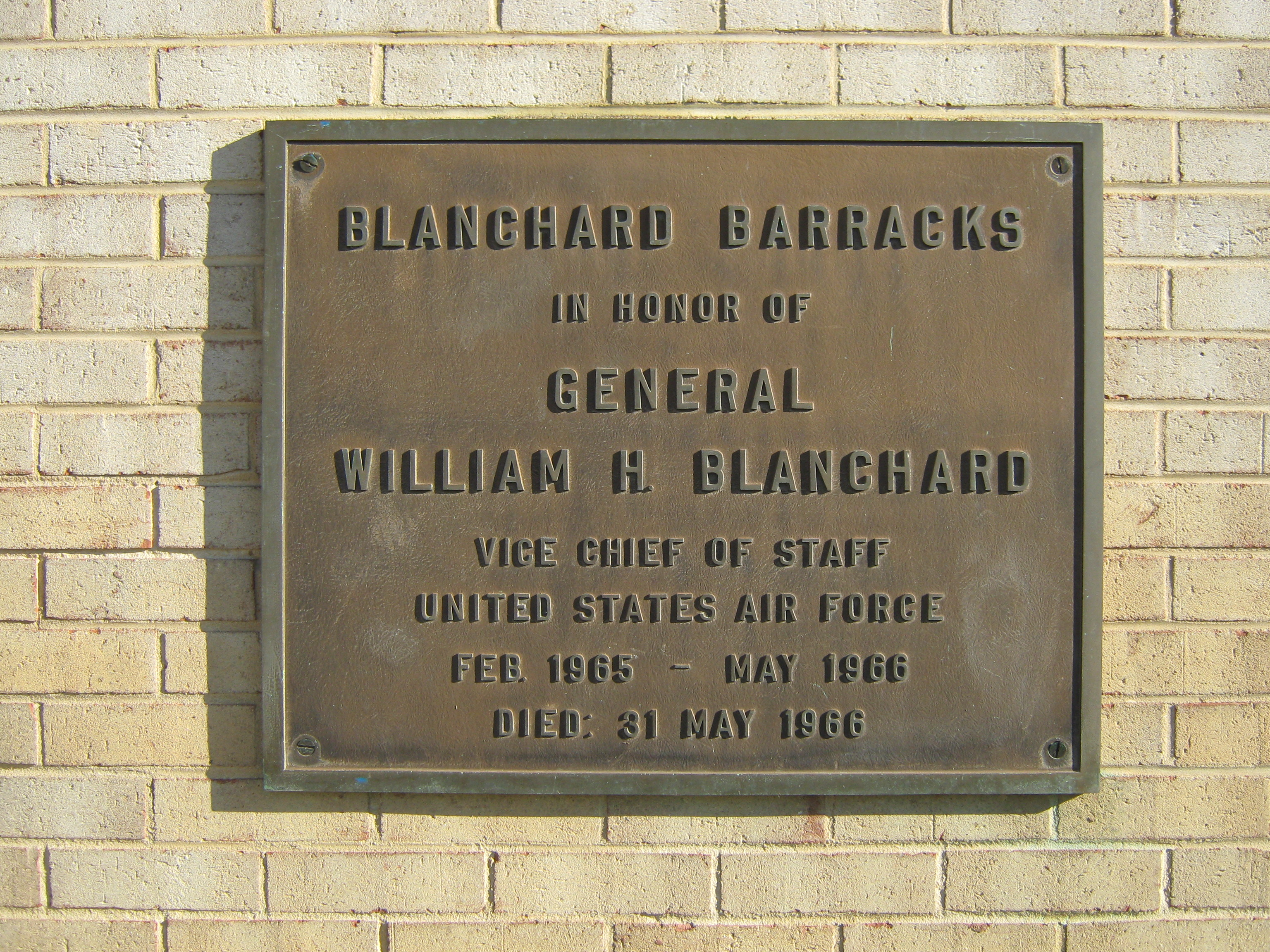 Plaque at Blanchard Barracks, Building 1302, Bolling Air Force Base, Washington, D.C. This building is named after General William H. Blanchard.